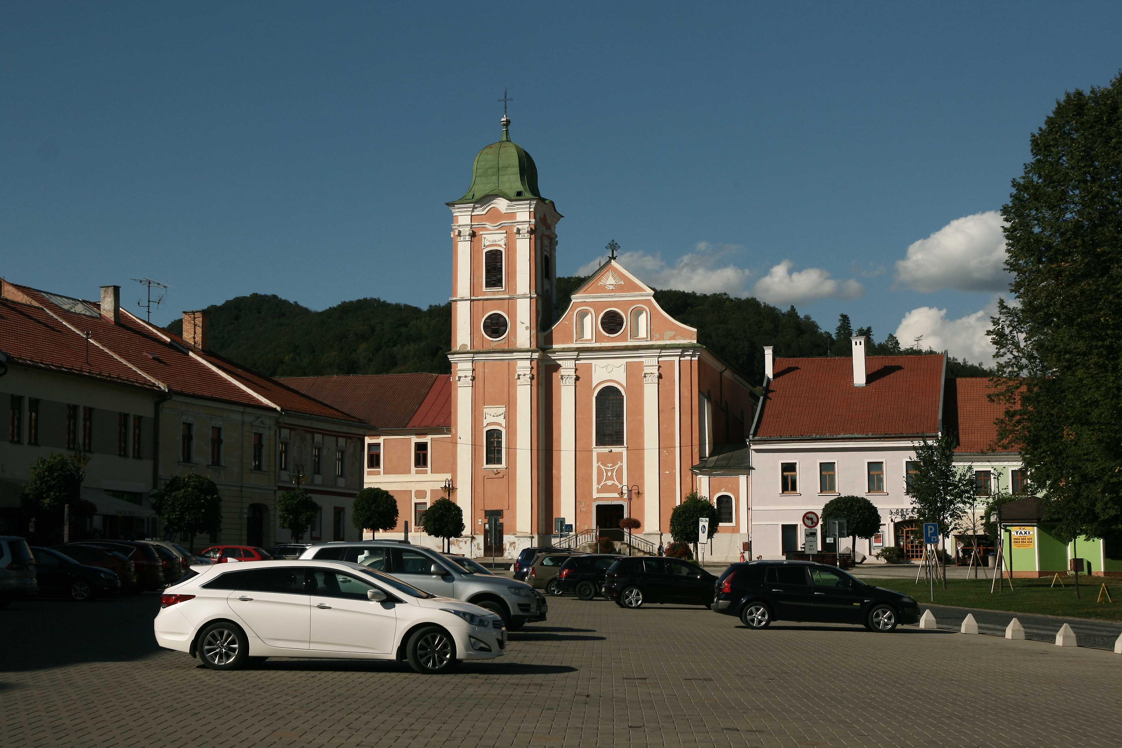 Baroque Saint Anne church in Rožňava, Slovakia.